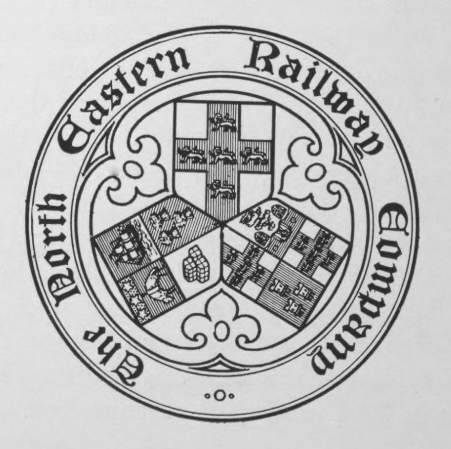 North Eastern Railway seal